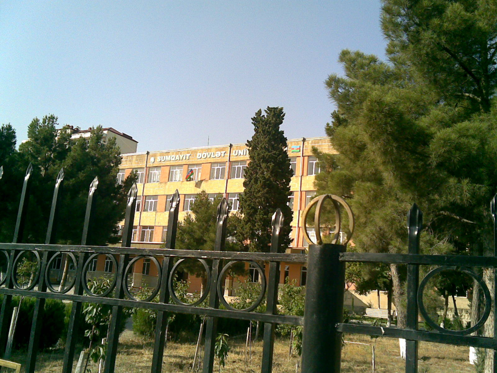 Sumgayit State University